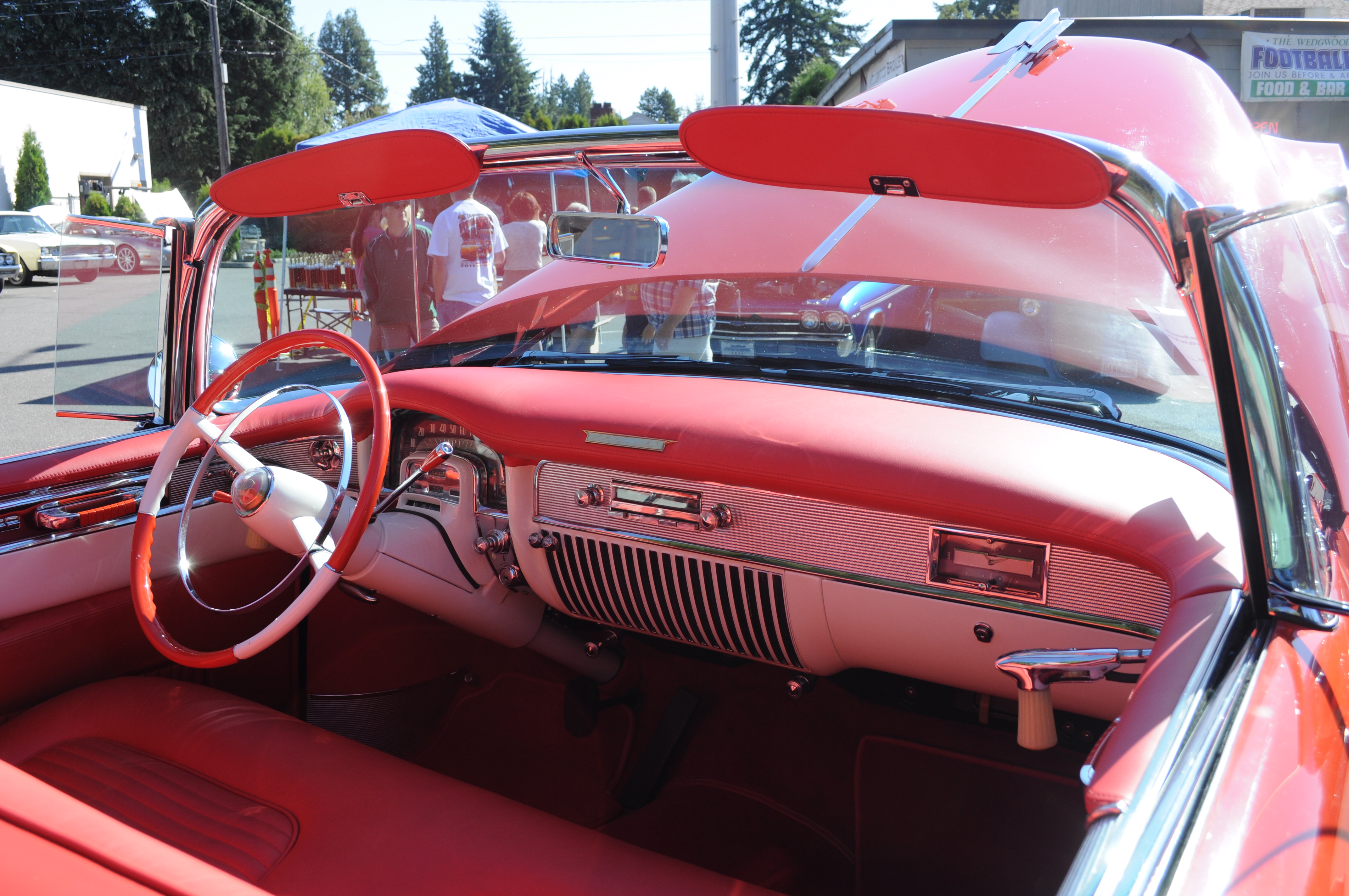 Dashboard, 1953 custom Cadillac El Dorado, 4th Annual Chad Shanks Memorial Car Show, Wedgwood Broiler, Wedgwood, Seattle, Washington, USA